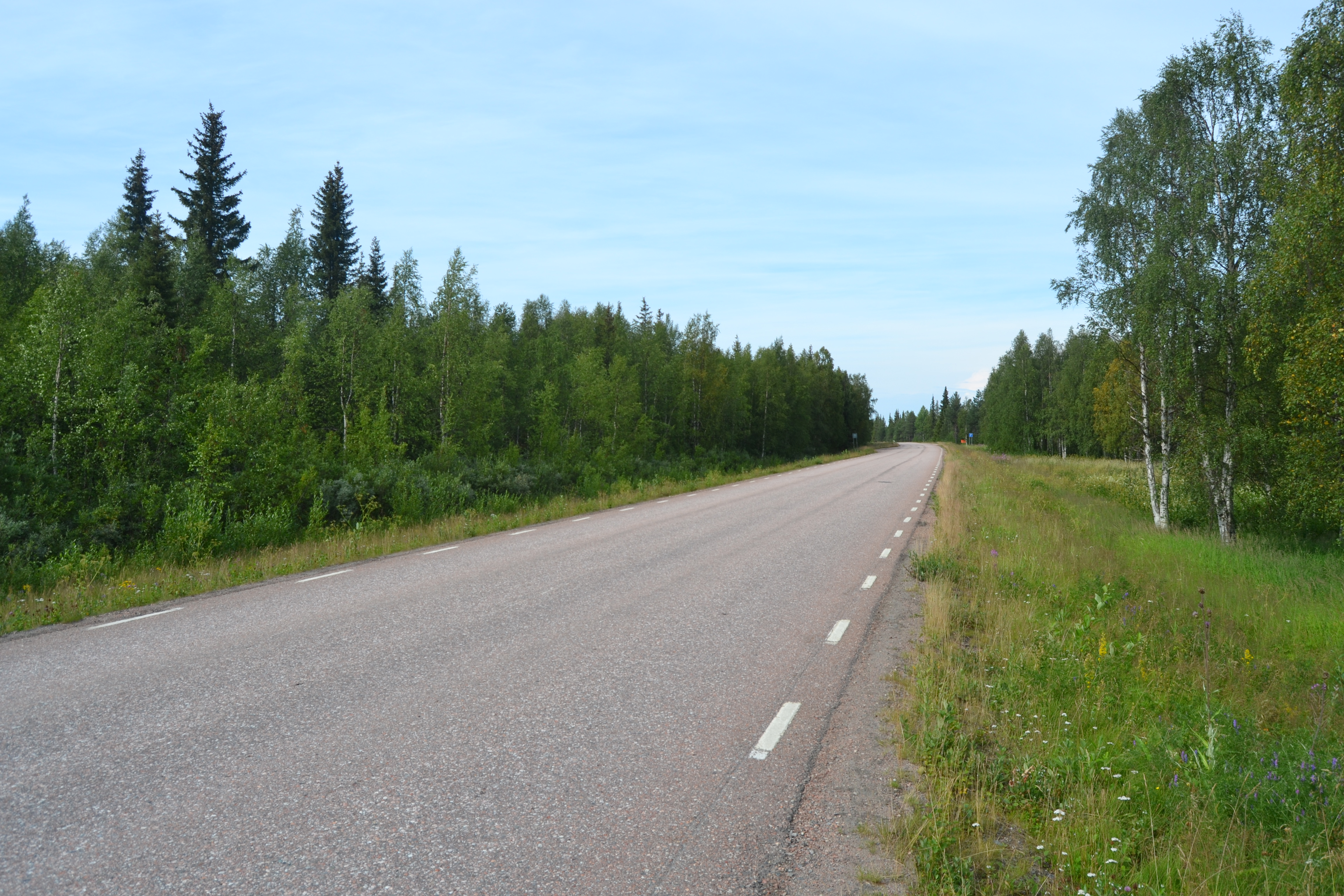 County road 395 in Pajala, Sweden